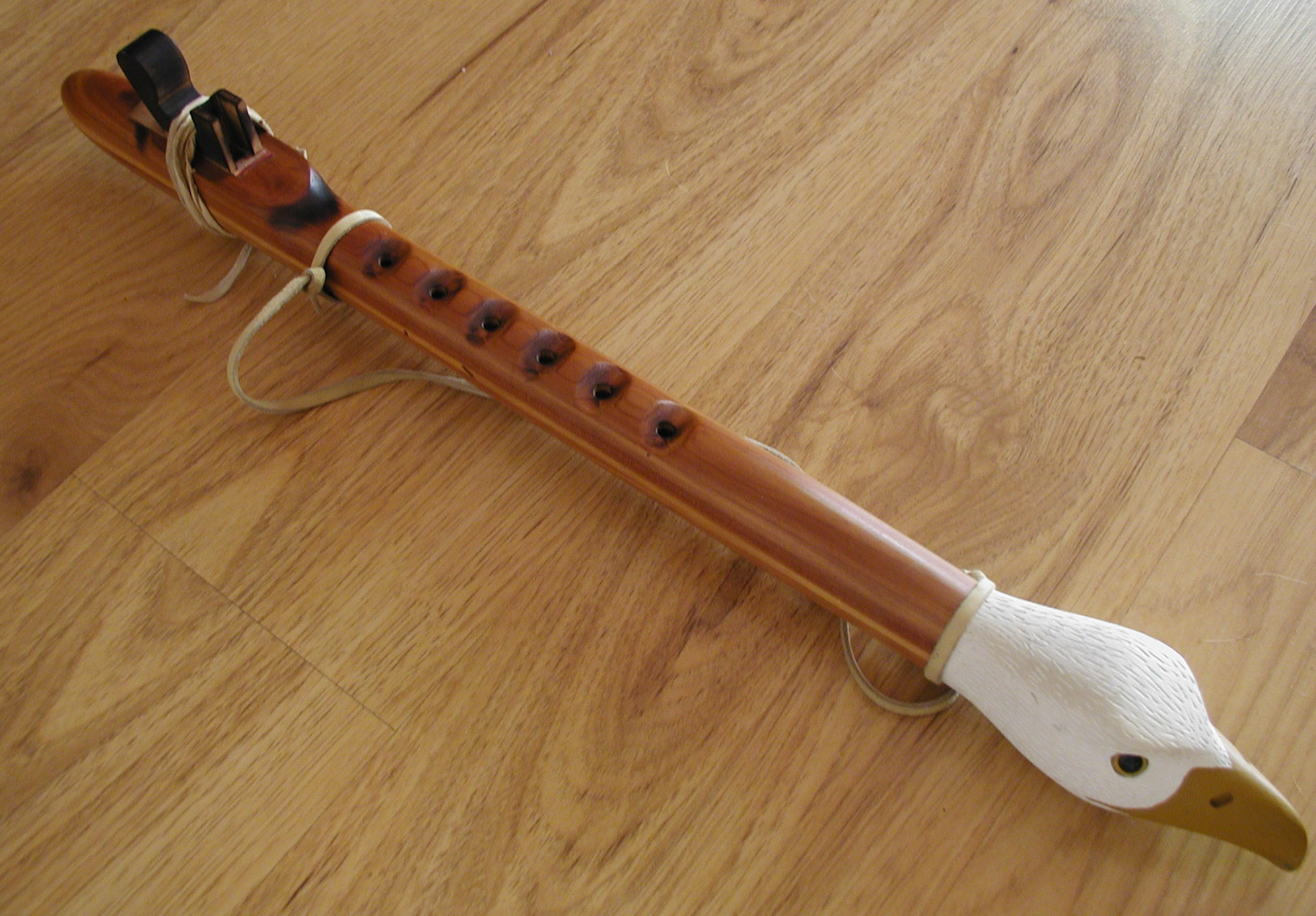 Native American flute crafted by Chief Arthur Two-crows, 1987